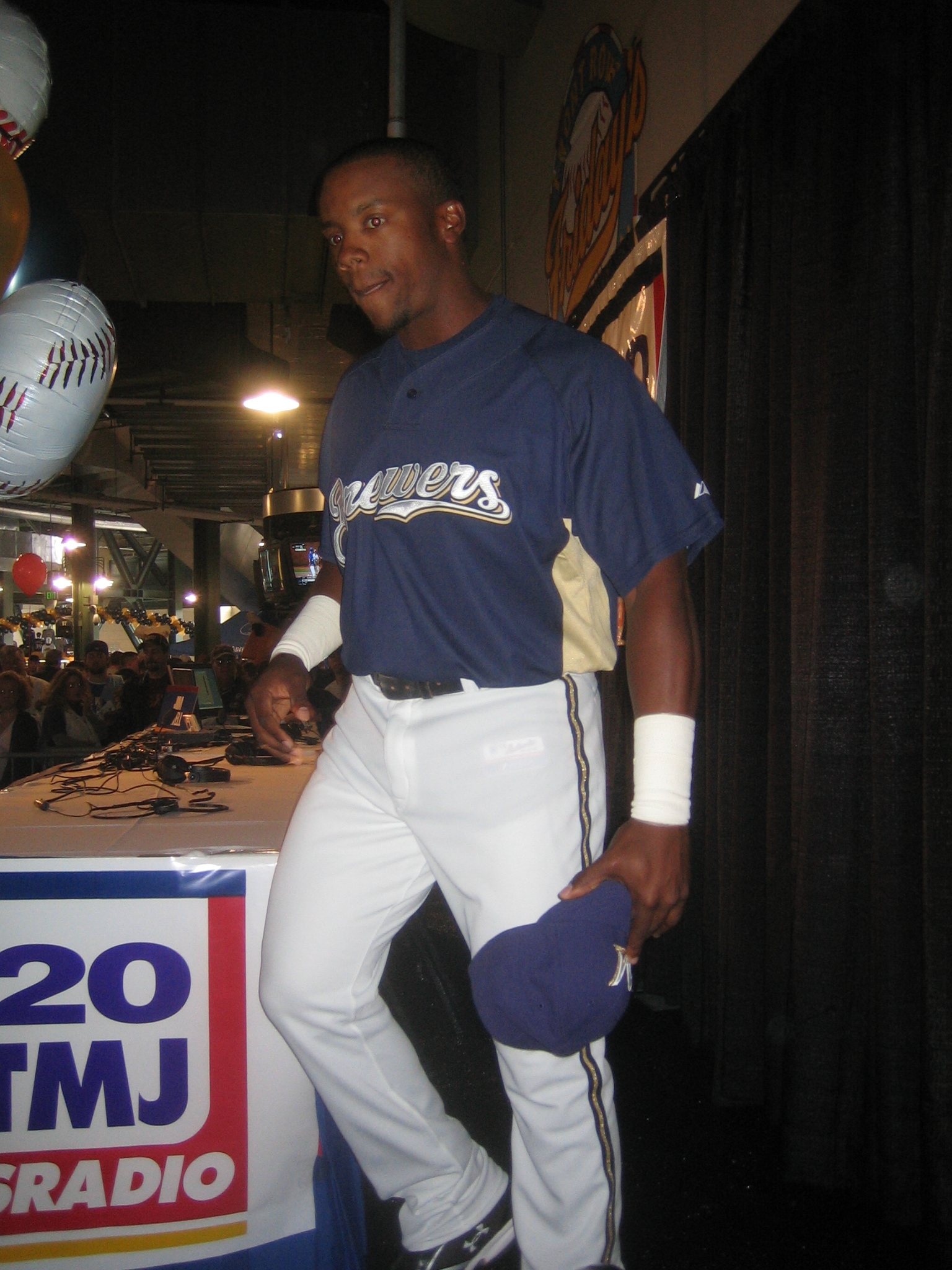 Leaving the radio show.